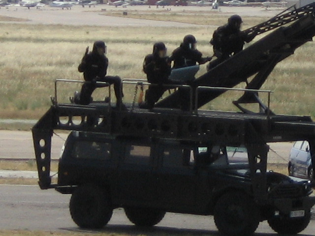 Members of the Grupo Especial de Operaciones during an assault demonstration.